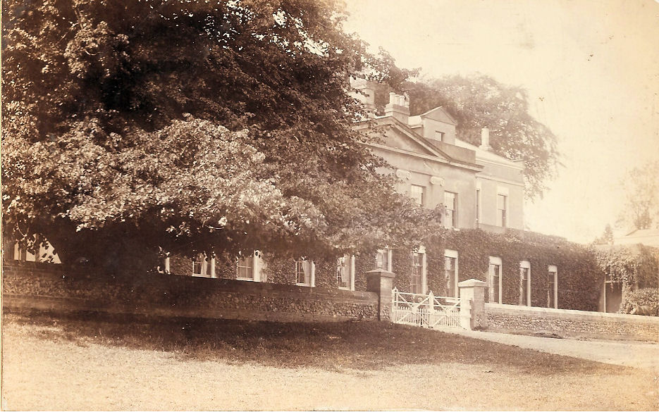 Photograph of Gadebridge House